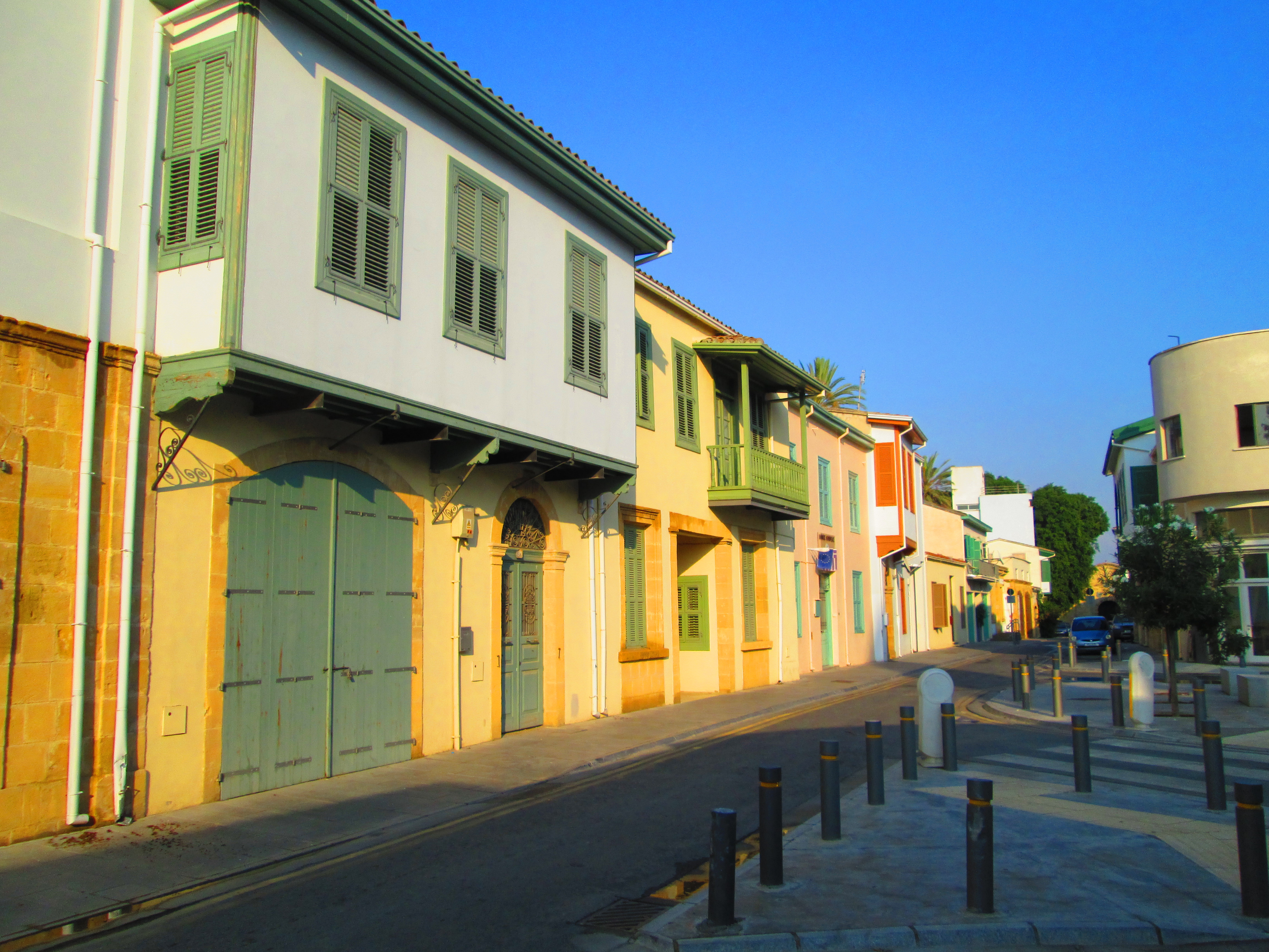 Old mansions houses in old Nicosia in the afternoon Republic of Cyprus